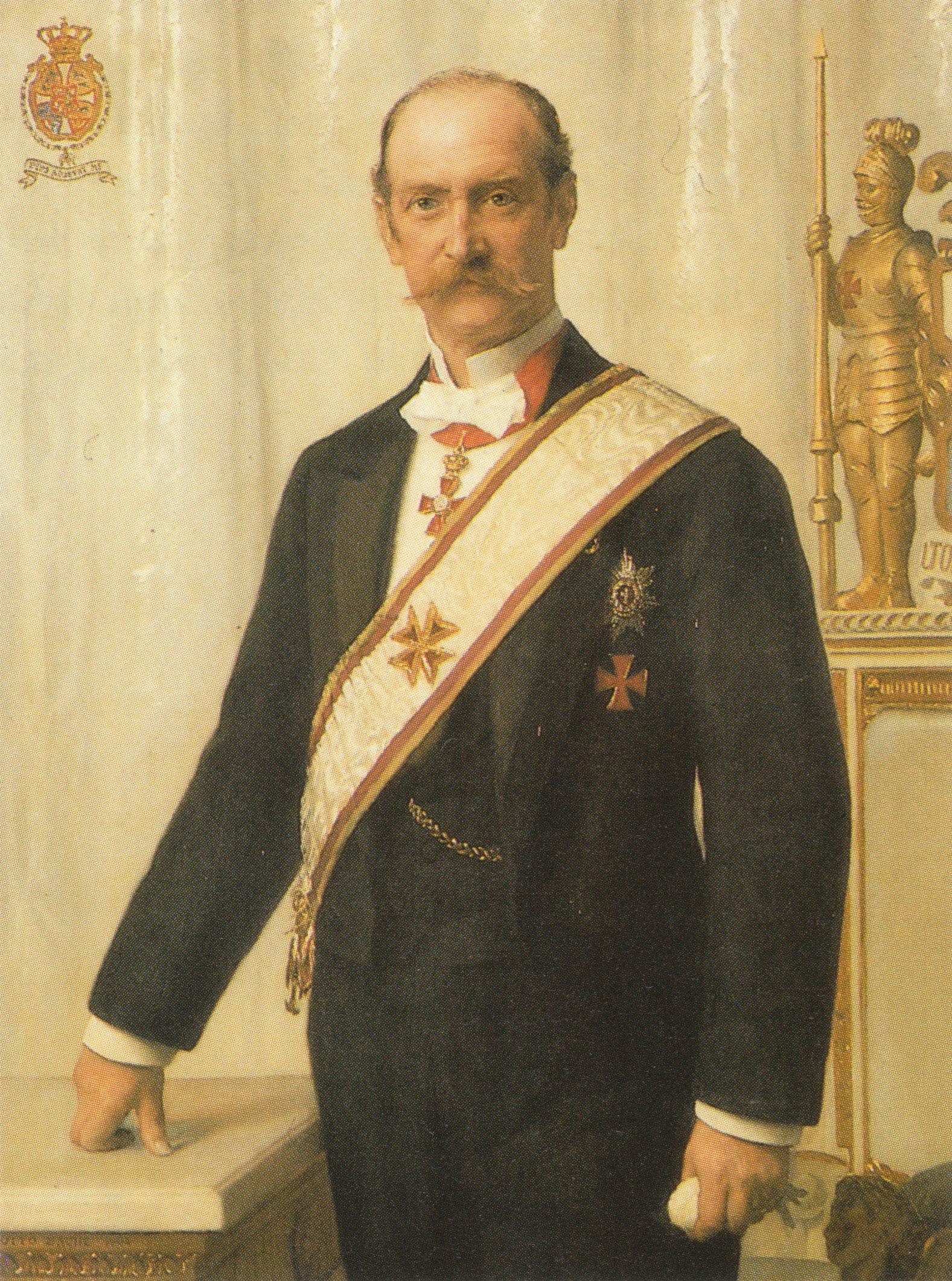 Depicted person: Frederick VIII of Denmark in his Freemasonic costume.